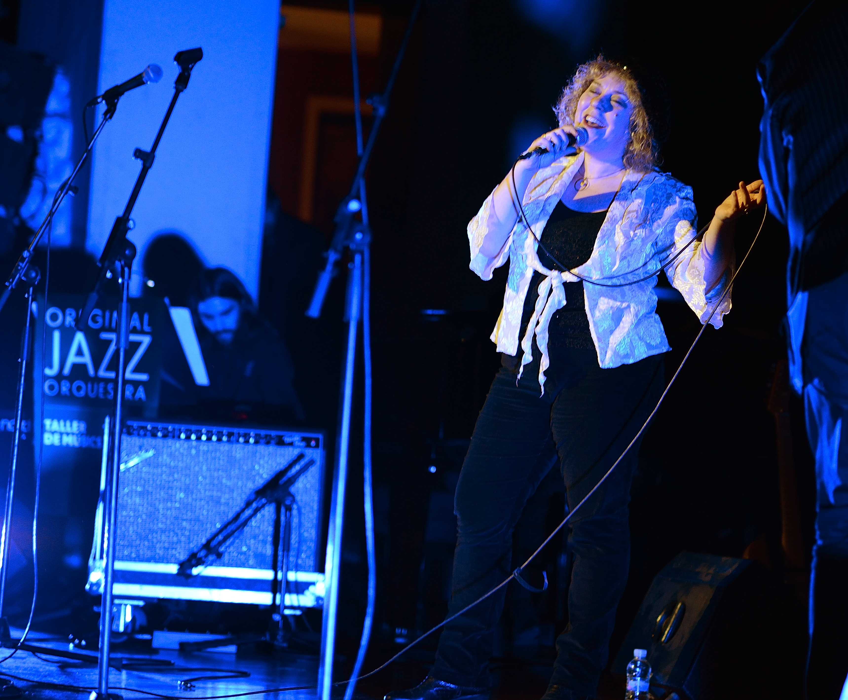 Big Mama Montse at Palau de la Musica Catalana